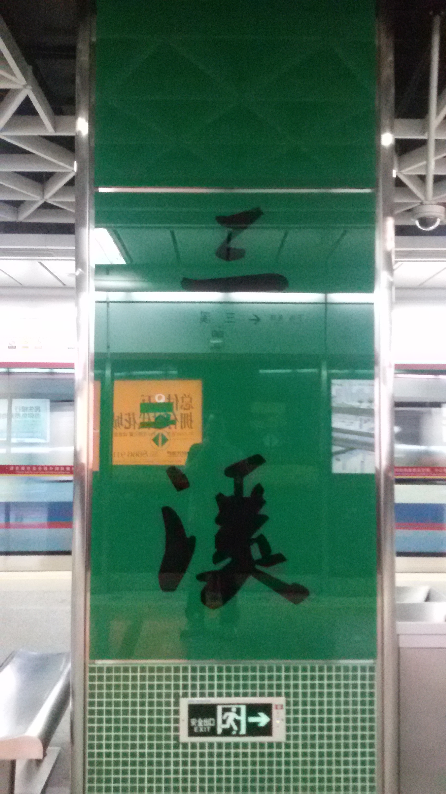 WORD on PILLAR for Sanxi Station in Guangzhou Metro.